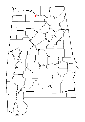 Self made dot map of Moulton Heights, Alabama.